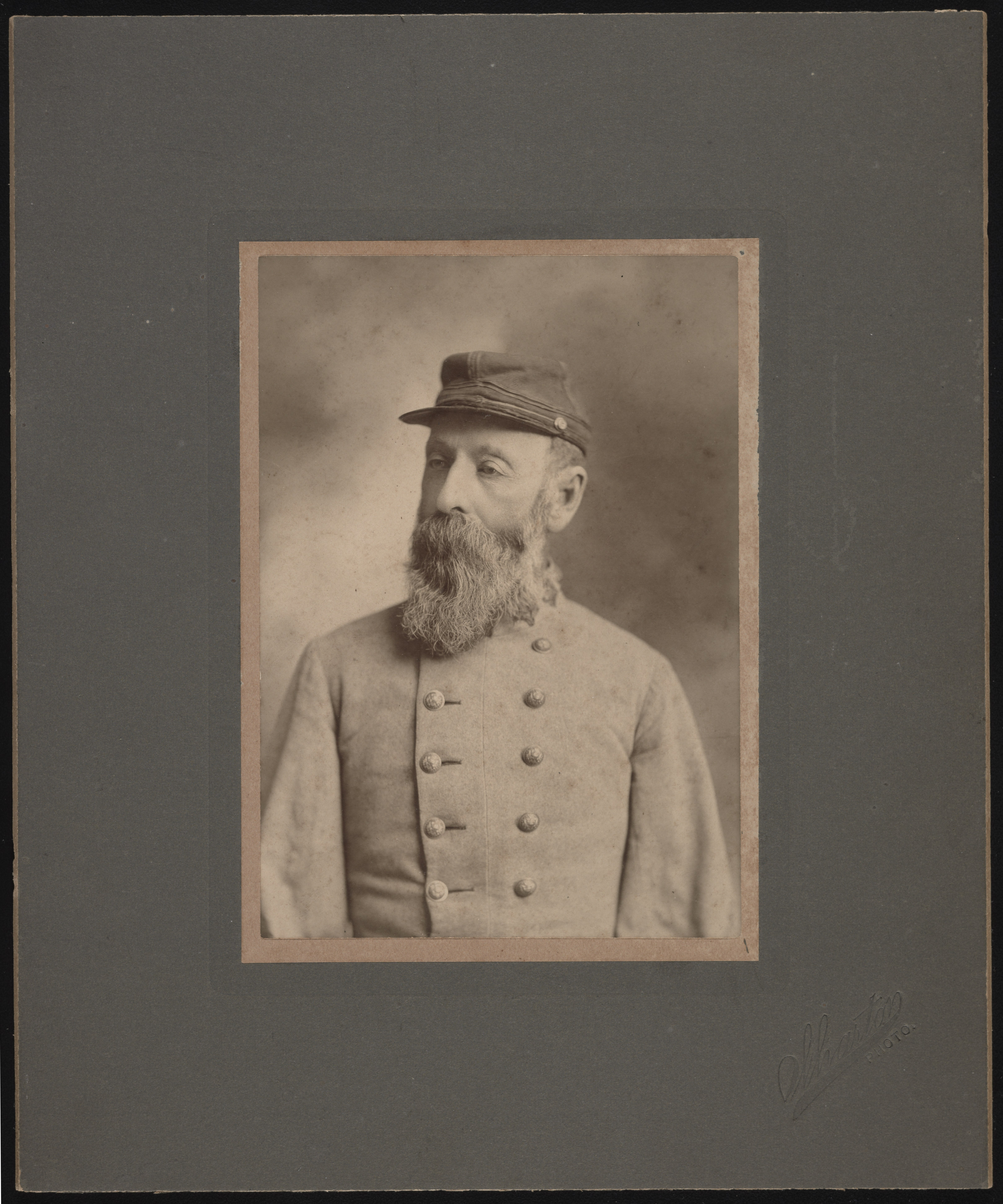 Title: Civil war veteran John Randolph Lane] / Wharton photo Abstract/medium: 1 photograph : print ; sheet 14 x 10 cm, mount 25 x 20 cm.